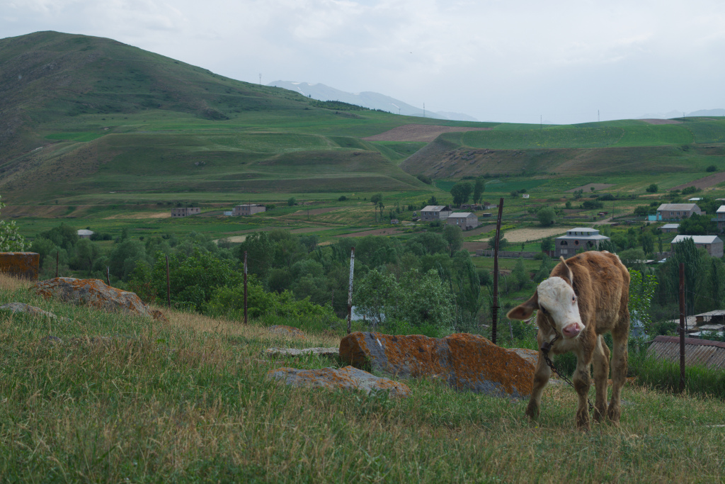 A cow grazes on a hillside overlooking the village of UYts